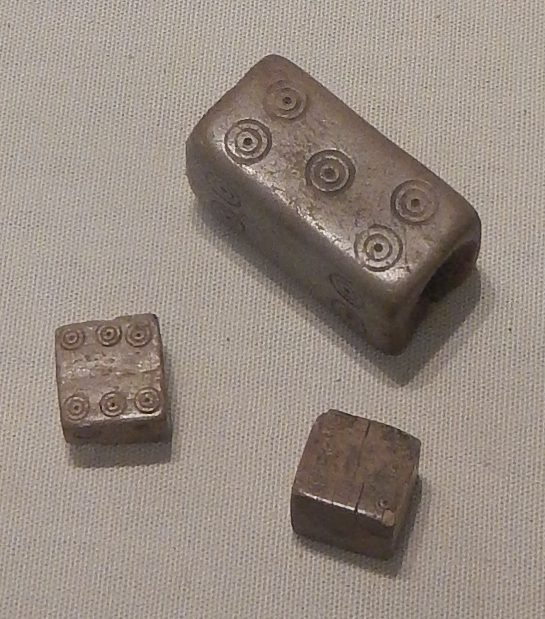 Roman bone dice from Calleva Atrebatum (Silchester). Reading Museum.